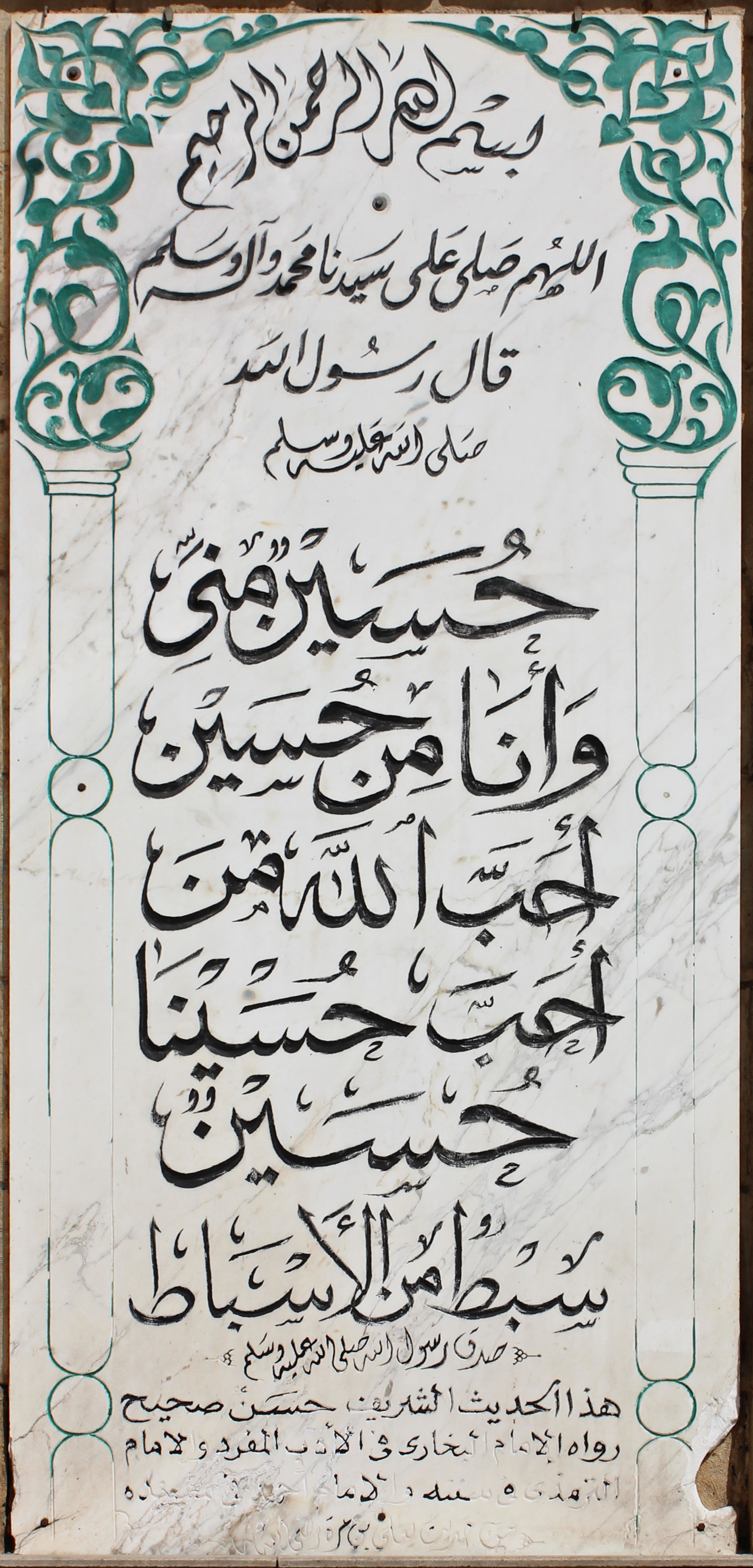 Imam Hussein Hadith inscription, Al-Hussein Mosque, Cairo. Imam Hussein Hadith inscription, Al-Hussein Mosque, Cairo. Bismillah Al-Rahman Al-Rahim (In the name of God the most merciful) Blessings of God and peace be on our Lord muhammad and his kin The messenger of God peace be upon him said: Hussain is of me, and I'm from him He who loves hussein shall be loved by God Hussein is one of my branches "The messenger of God surely spoke the truth" This Hadith is sahih (correct) told by imam bukhari in his work "Al-Adab Al-Mufrad" and imam termadhi. .. (rest unclear).